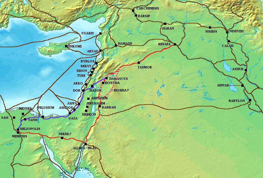 The Via Maris (purple), King's Highway (in red), and other ancient Levantine trade routes, c. en:1300 BCE Category:Historical maps by User:Briangotts